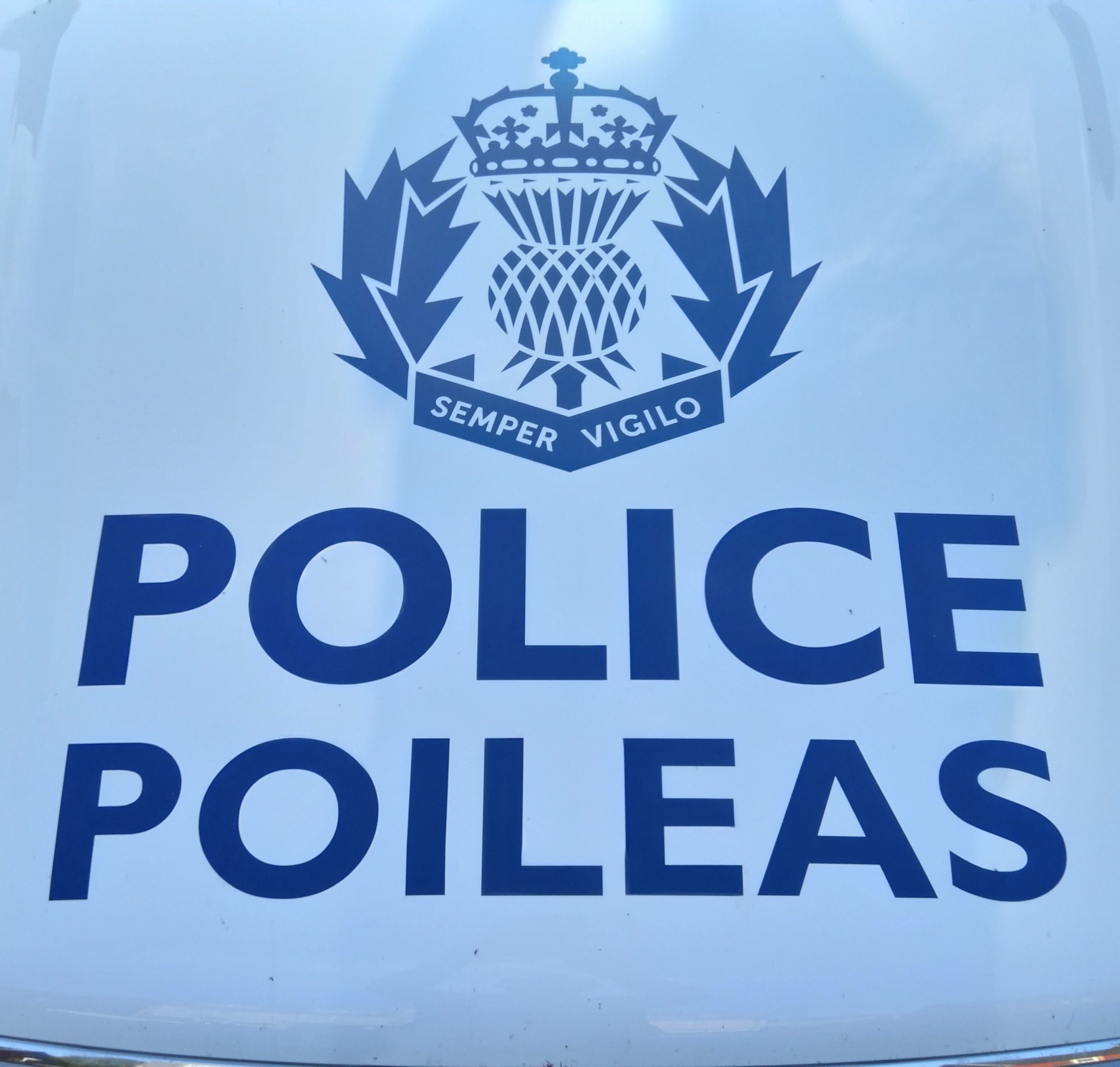 Police Scotland vehicle decal (Bilingual)